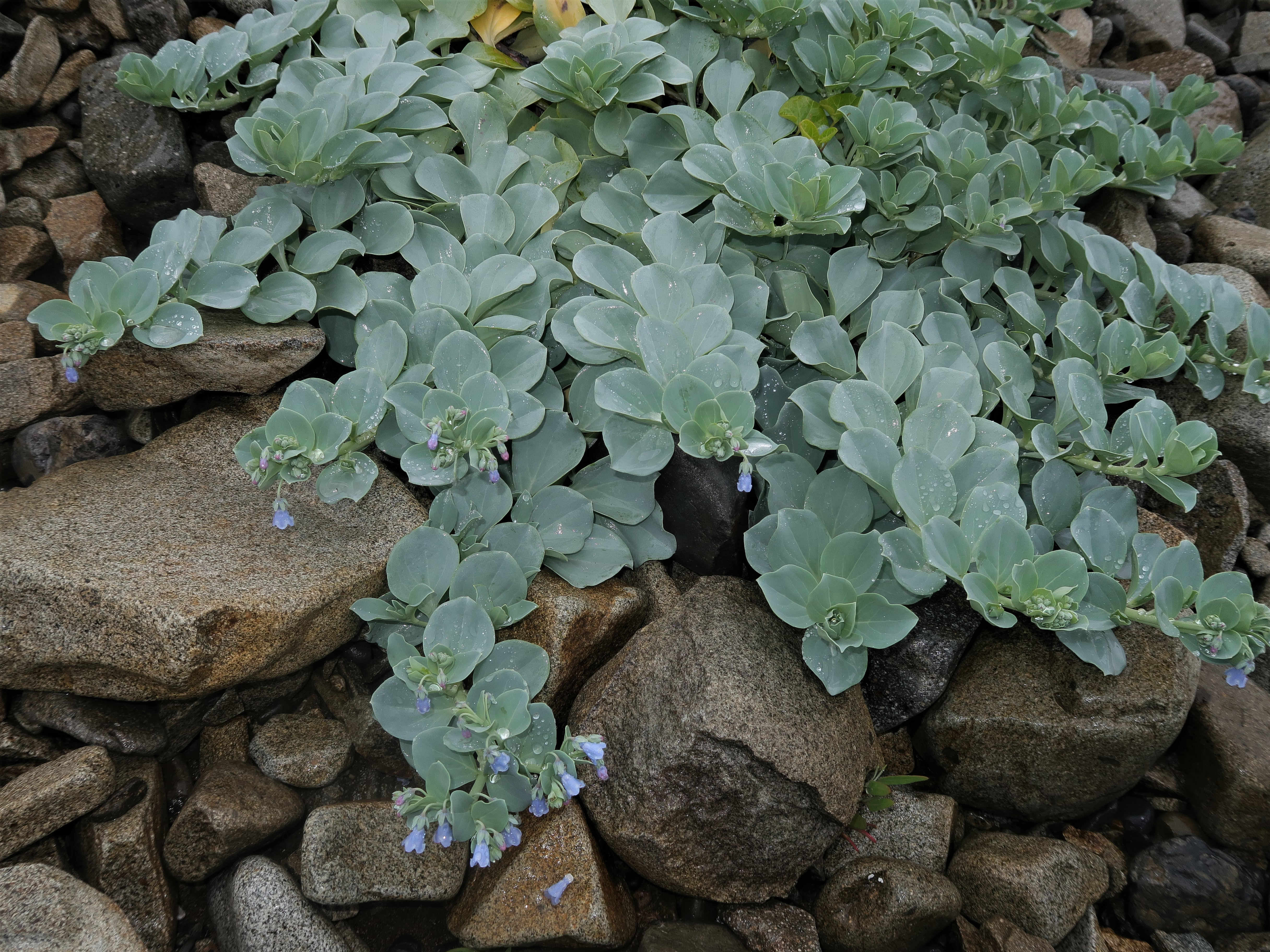 Mertensia maritima subsp. asiatica, Shimokita Peninsula, Aomori pref., Japan